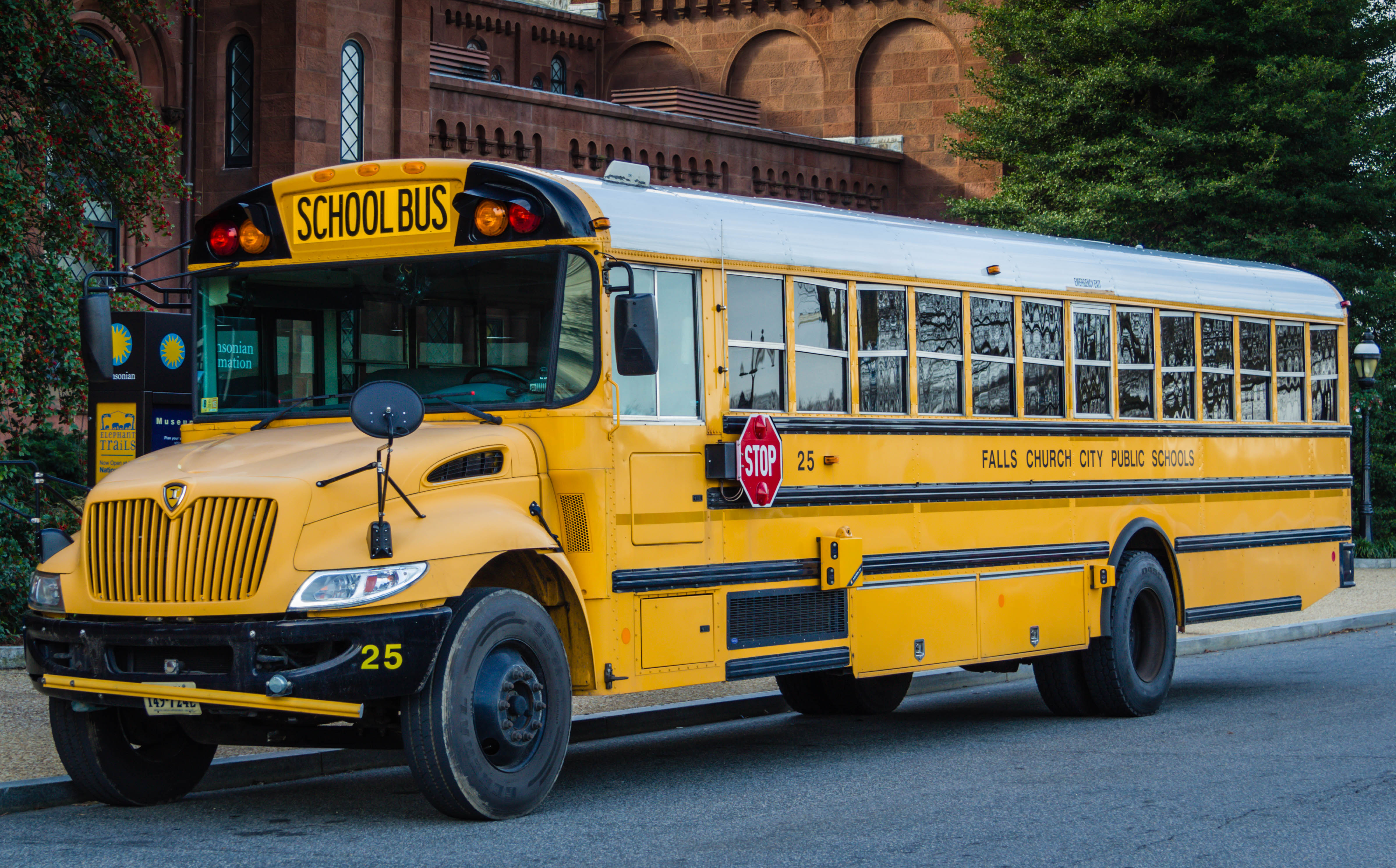 School Bus